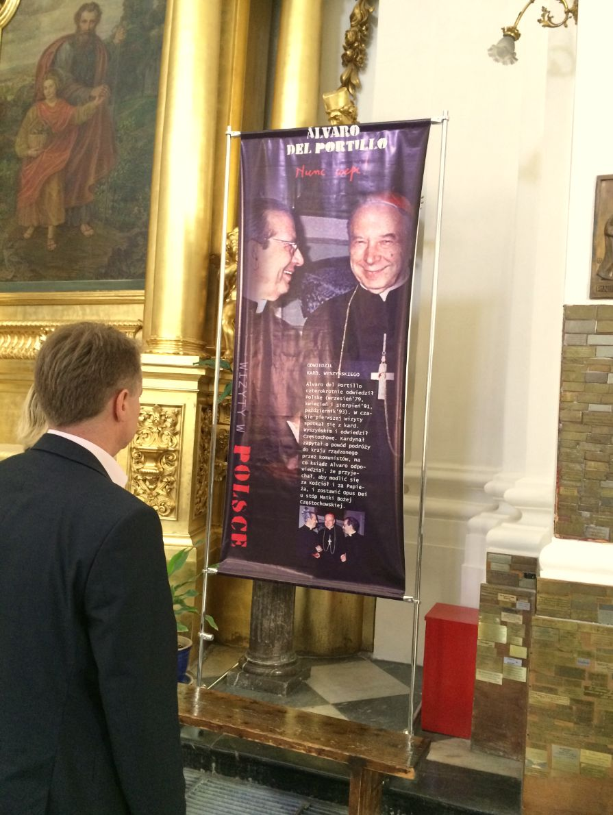 Exhibition about Álvaro del Portillo in Warsaw 2014 at the Holy Cross Church